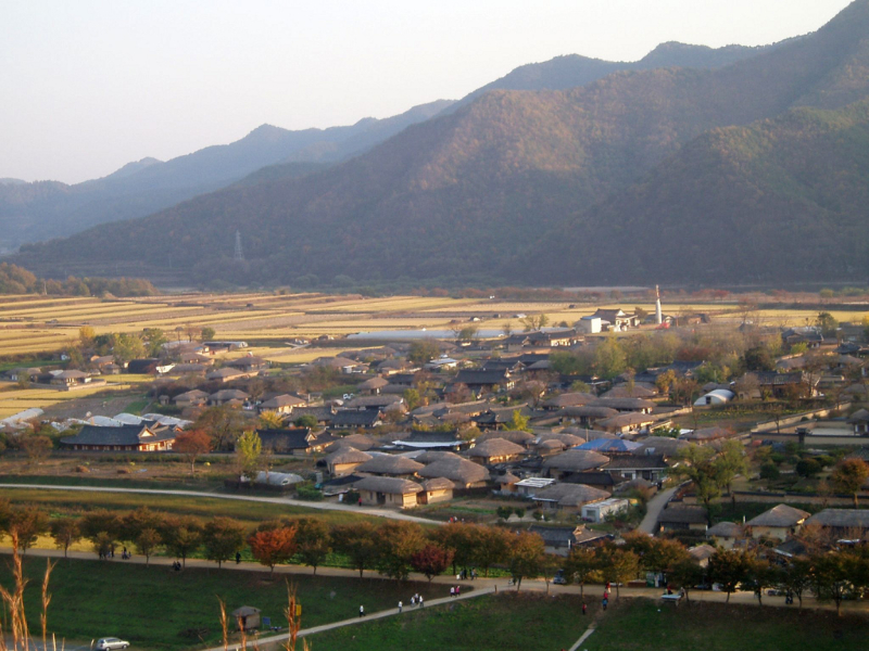 Hahoe Folk Village located in Andong, South Korea